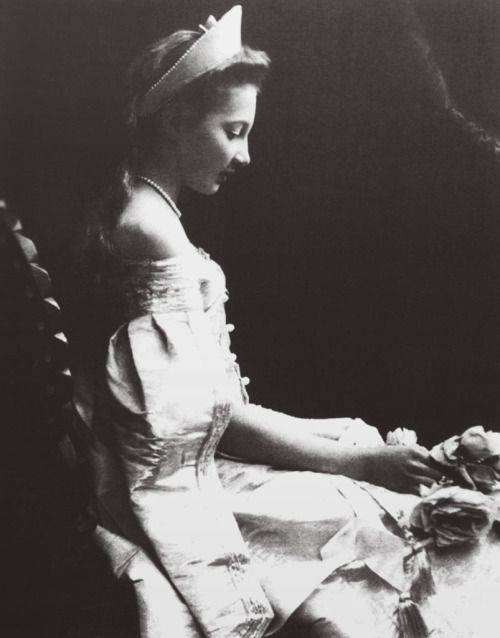 Princess Tatiana Konstantinovna in official court dress. Circa 1904